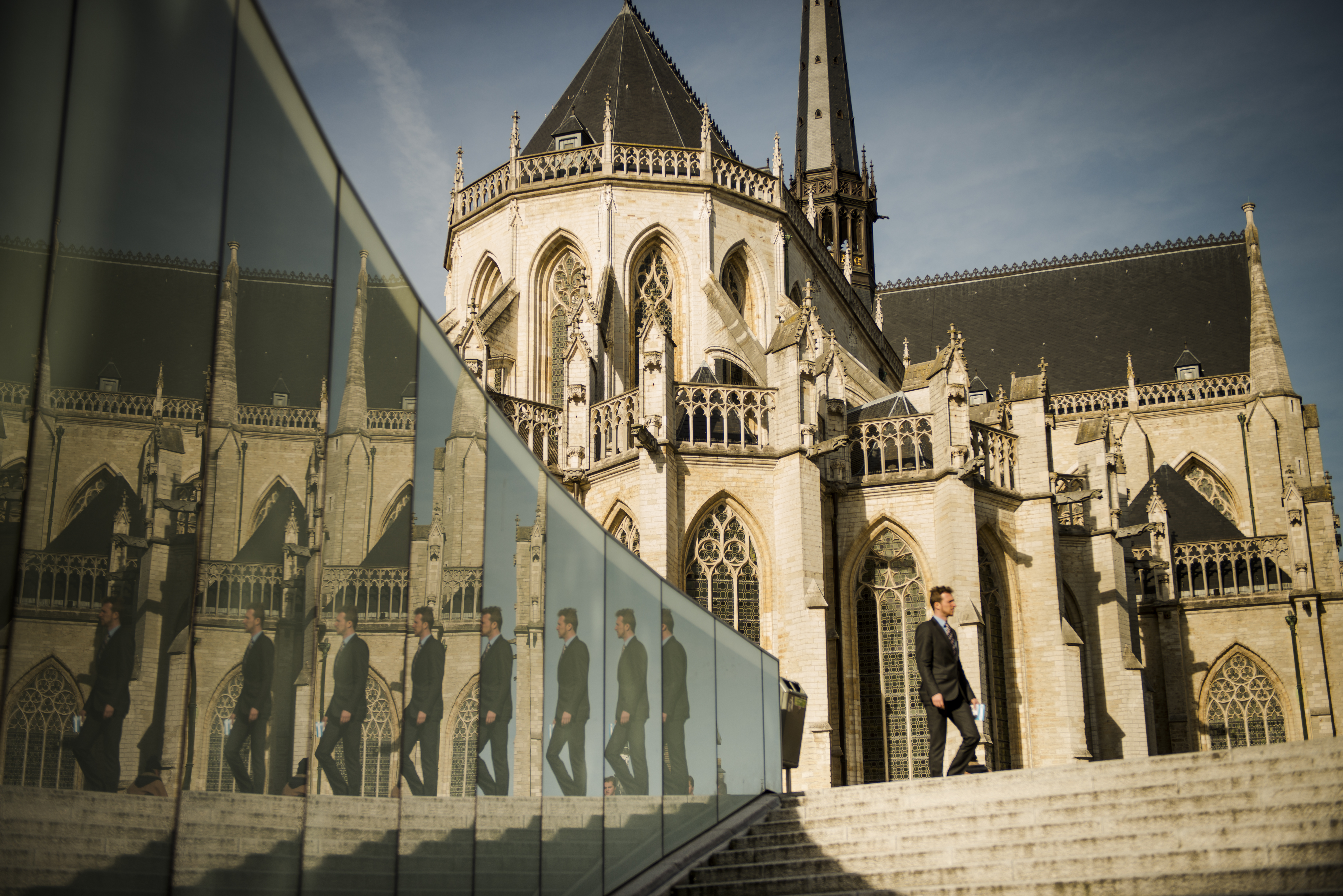 Saint Peter's Church Leuven